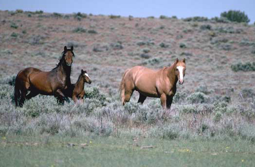 Wild stallion Lazarus and part of his band in West Warm Springs HMA, OR